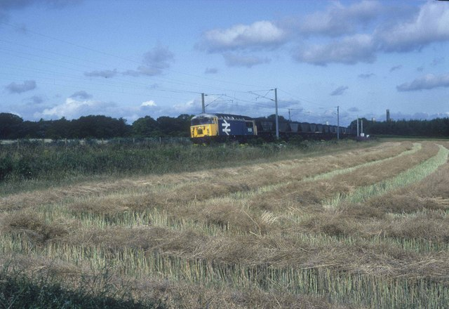 Coal for Cambois approaching Widdrington Station , near to Stobswood, Northumberland, Great Britain. Heading south on the East Coast main line between the passenger services were a number of coal trains. Here a load from Widdrington disposal point heads south bound for Blyth Cambois power station. This power station shut back in 2001. Along with the local BR train crew depot and shed at Cambois.